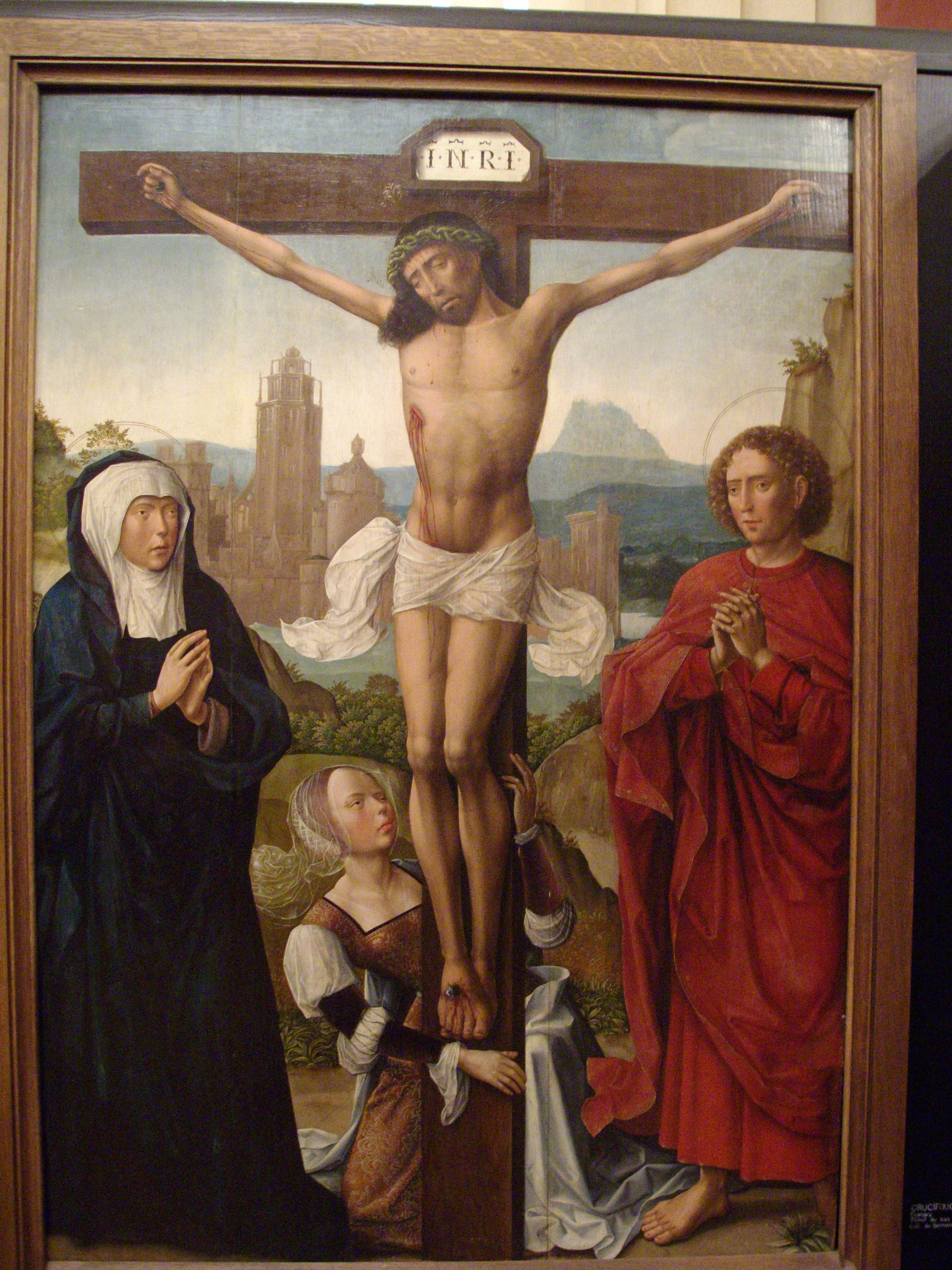 Crucifixion, musée de Cluny